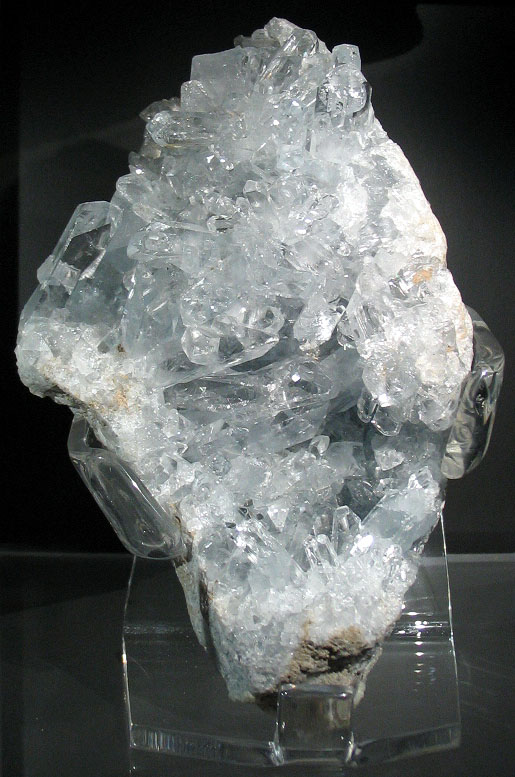 Crust of clear grey-blue lustrous celestite crystals from Befotaka, Madagascar. Photograph taken at the Natural History Museum, London.